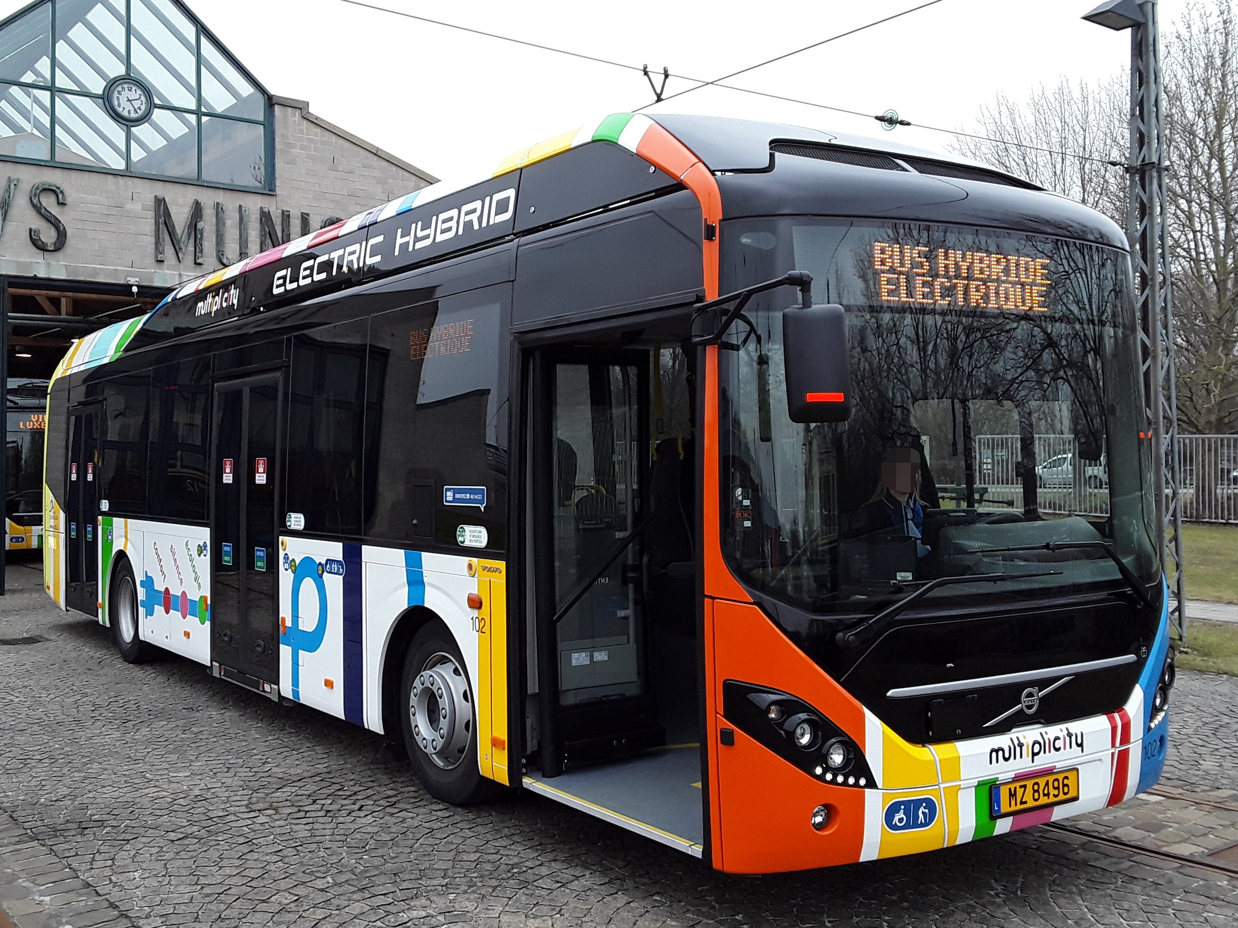 Volvo 7900 Electric Hybrid from AVL (Ville de Luxembourg) in front of the Bus and tram museau in Luxembourg.